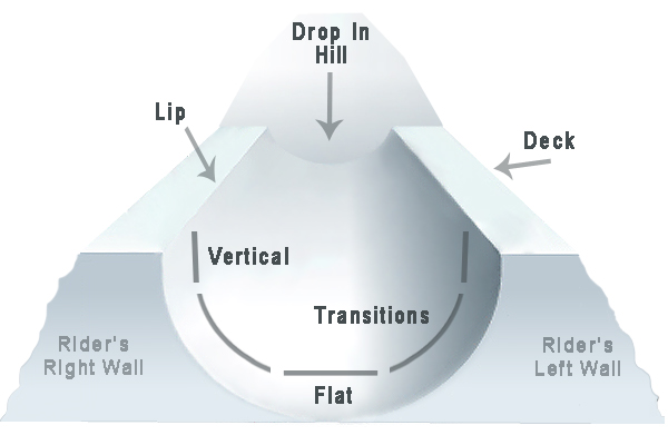 Ski and snowboard halfpipe diagram, as in Olympic snowboarding halfpipe competition. Please hyperlink as source.